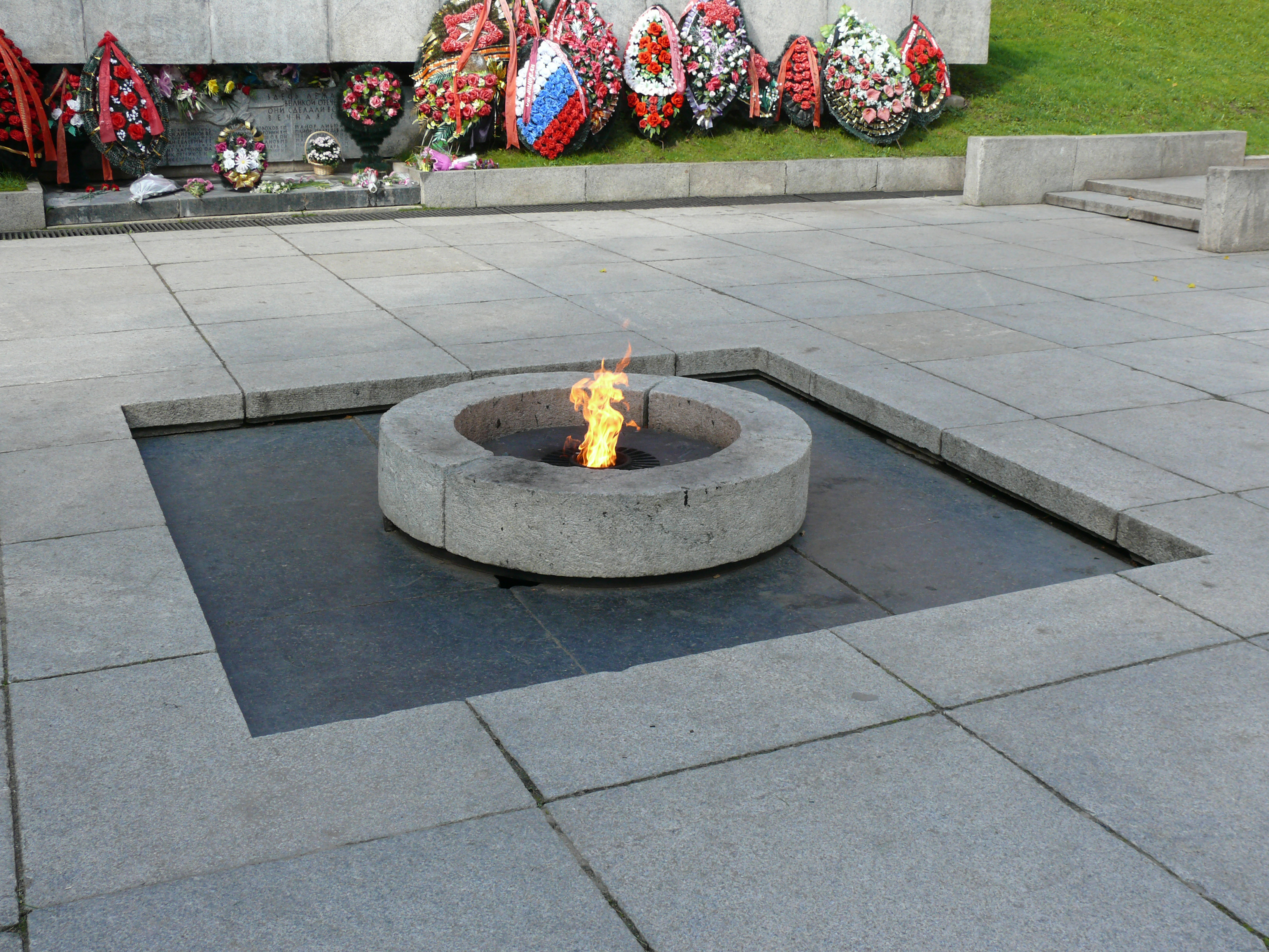 Eternal flame in Veliky Novgorod, Russia